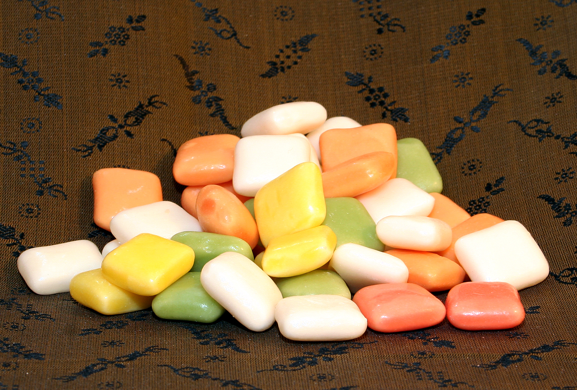 "Brio" candy from Malaco candy brand